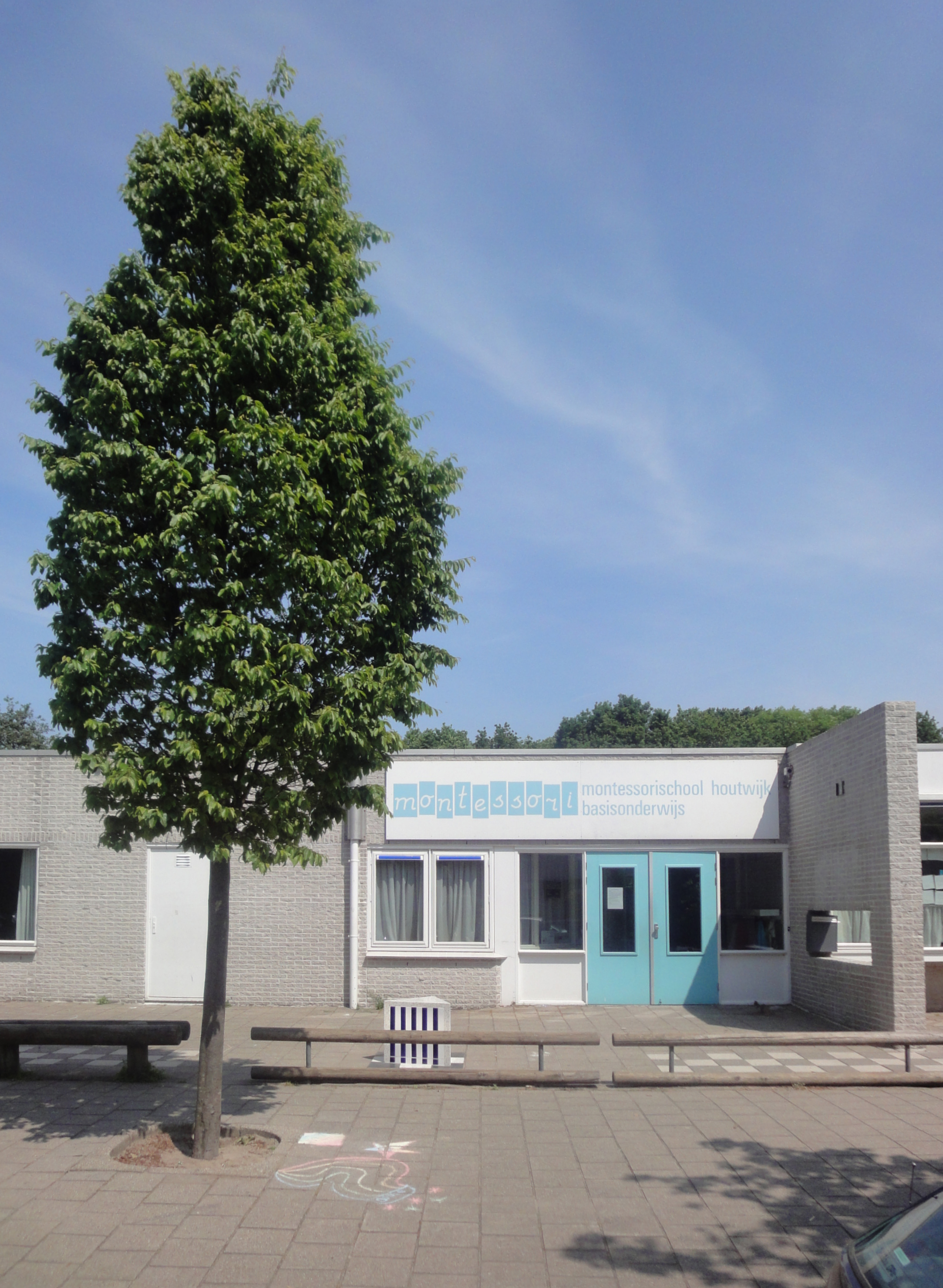 Montesori primary school in Houtwijk